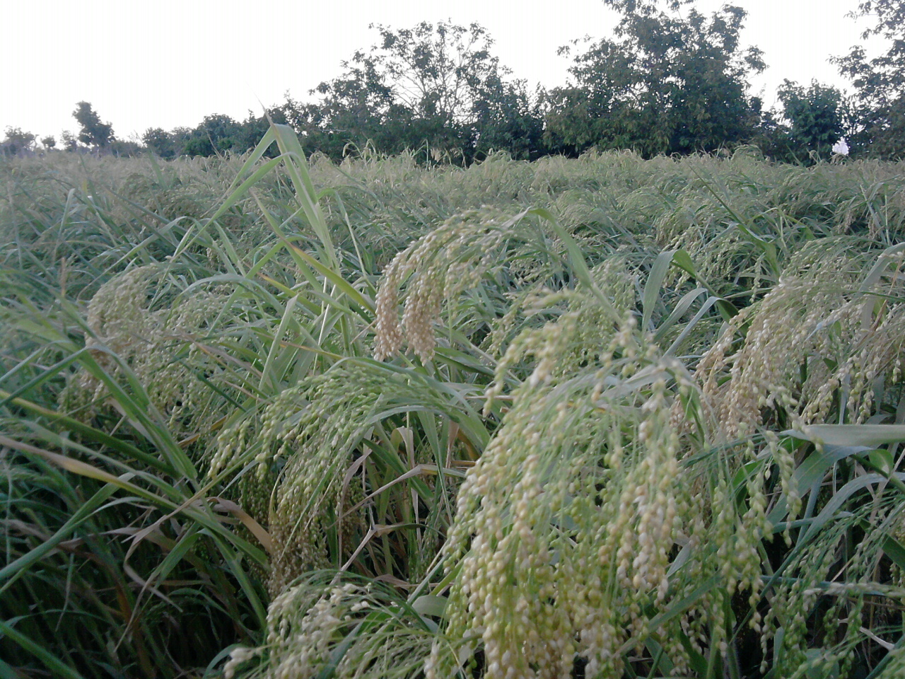 Gavars in Iran a kind of rice